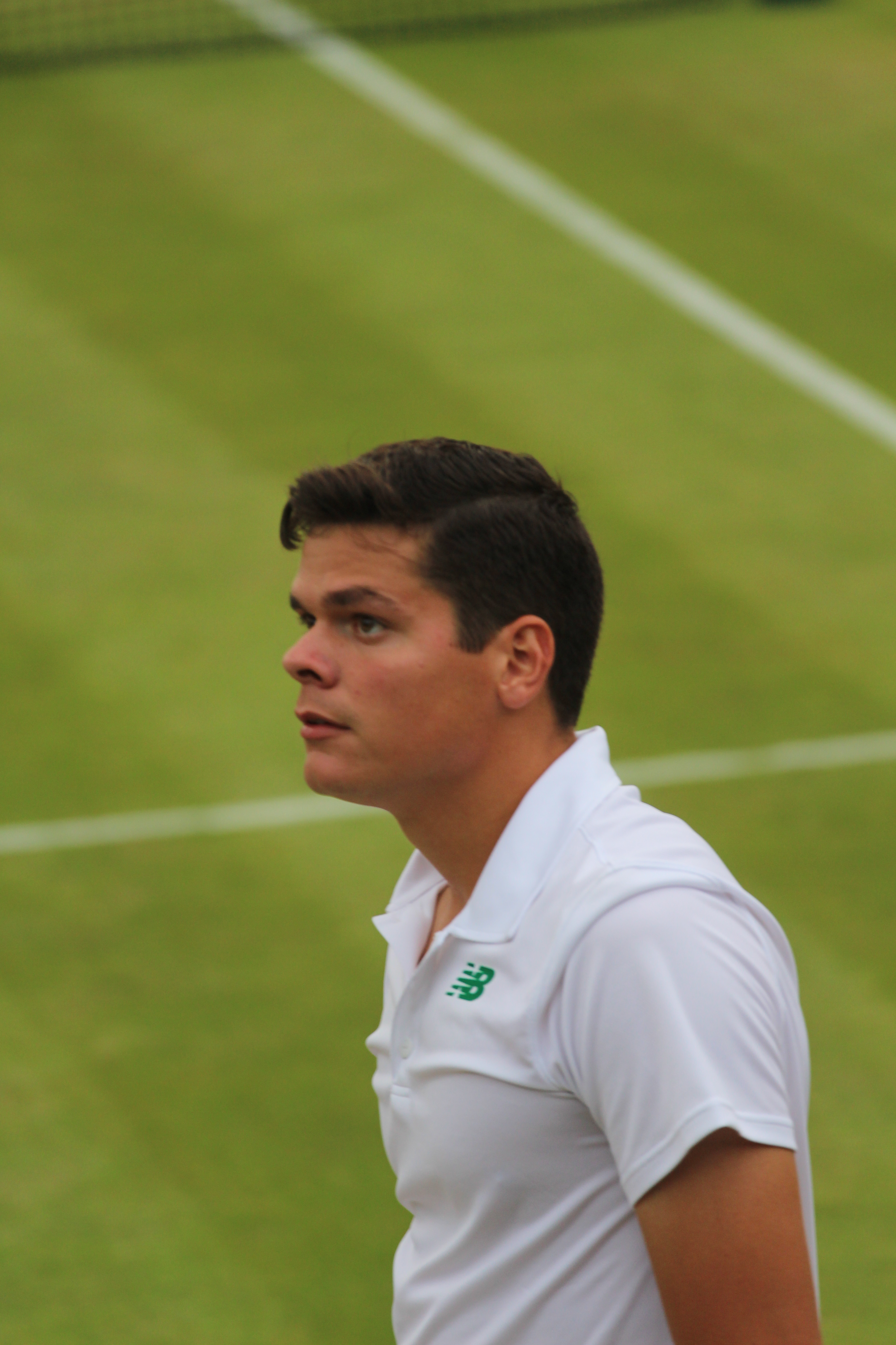 Milos Raonic at Wimbledon 2014